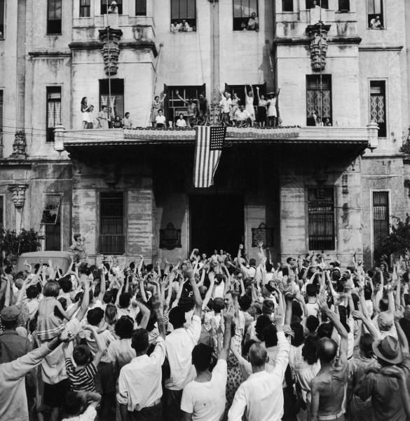 A historic photo of the University of Santo Tomas in the Philippines during its Liberation from the Japanese Regime in February 1945. The photo shows hundreds of Santo Tomas Internment Camp internees in front of the UST Main Building cheering their release from the prison camp.